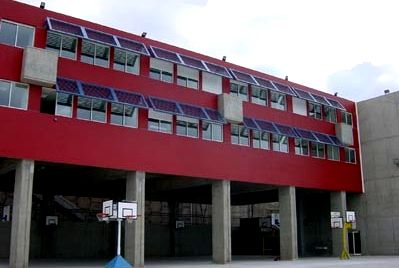 Lycée Franco-Libanais Nahr Ibrahim façade, north building